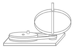 Drawing of an apparatus for demonstrating the physics of the equatorial bulge of a rotating planet. The oval is a spring-metal band. The elasticity of the spring-metal tends to pull the band towards a circular shape. When the device is spun up, the torque increases the energy. Half the energy goes into increasing the rotational energy of the spring-metal band, the other half goes into potential energy of the elastic deformation of the band. When the device is no longer driven, and energy is dissipating due to friction, the spring metal band models the equilibrium that determines the shape of the Earth. Friction dissipates kinetic energy. At the same time the kinetic energy is to some extent replenished by the contraction of the spring-metal band. Due to the contraction, the angular velocity decreases less than would be the case with a solid object that is losing energy through friction. If the spring-metal band spins up slowly, and spins down slowly, then at each point in time the amount of potential energy is equal to the amount of rotational kinetic energy.